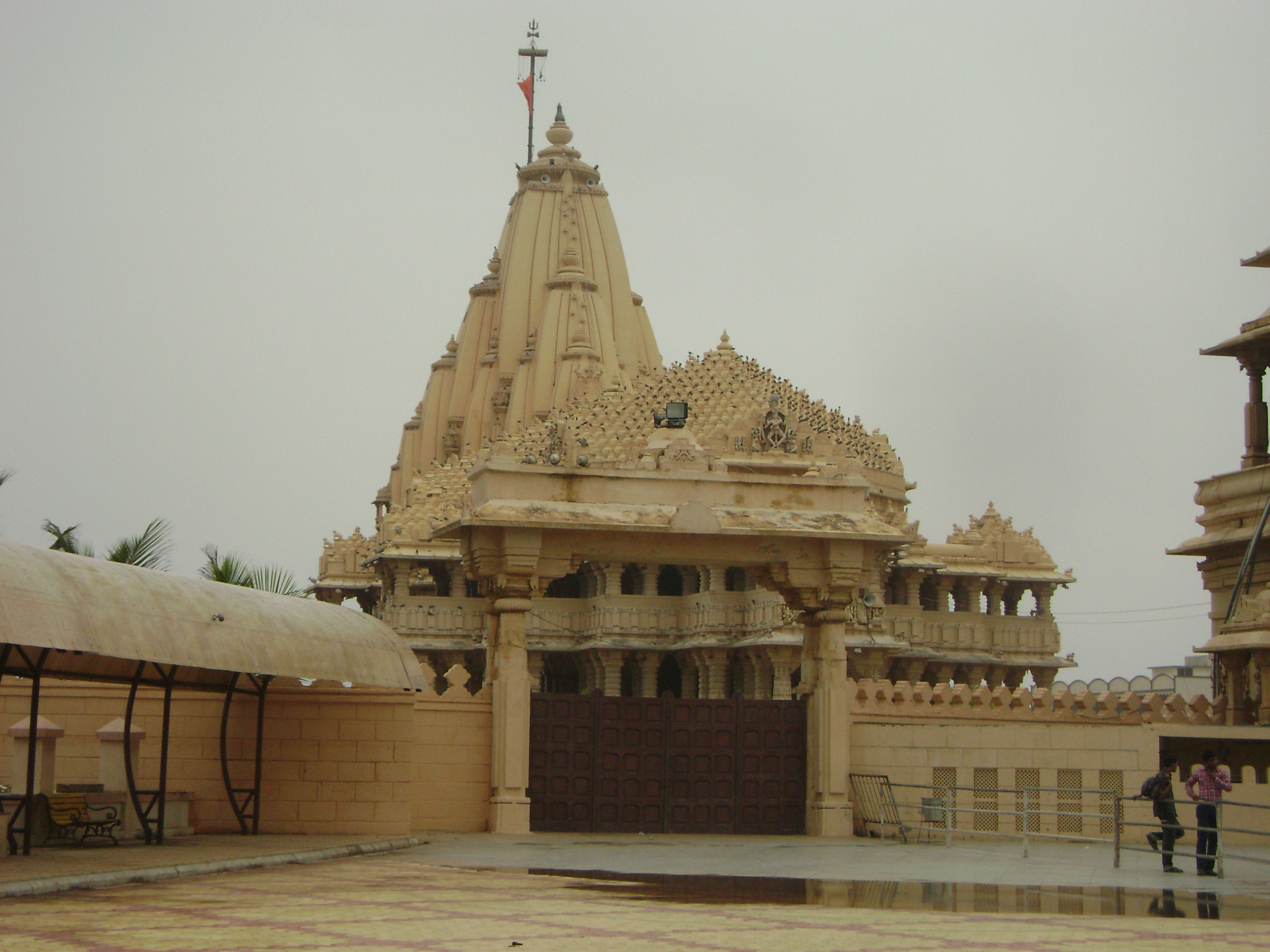 It is the picture of famous Somnath temple.